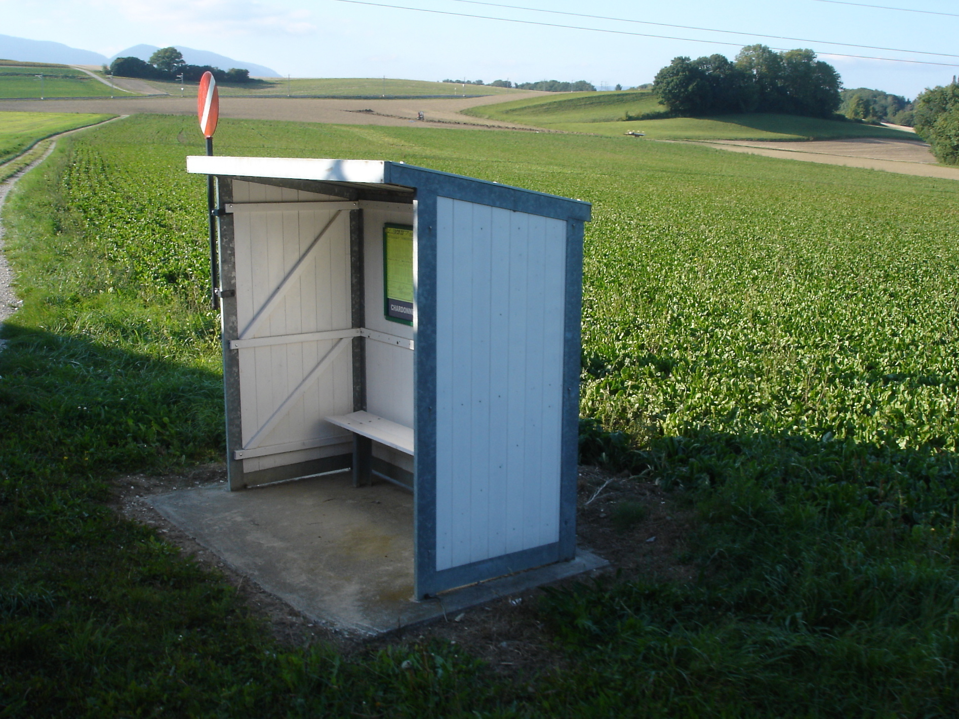 Chardonney-Château train station.